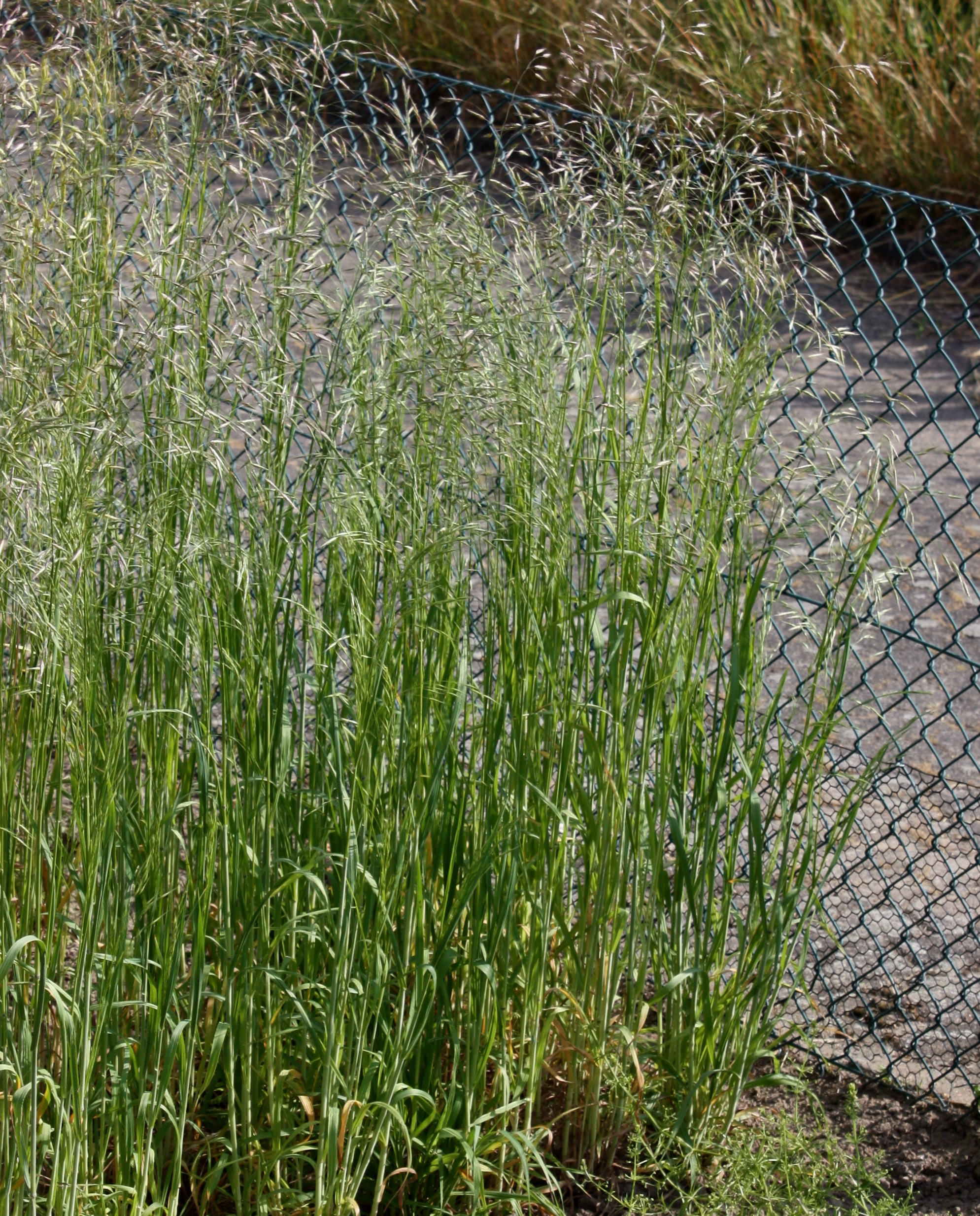 Bromus arvensis